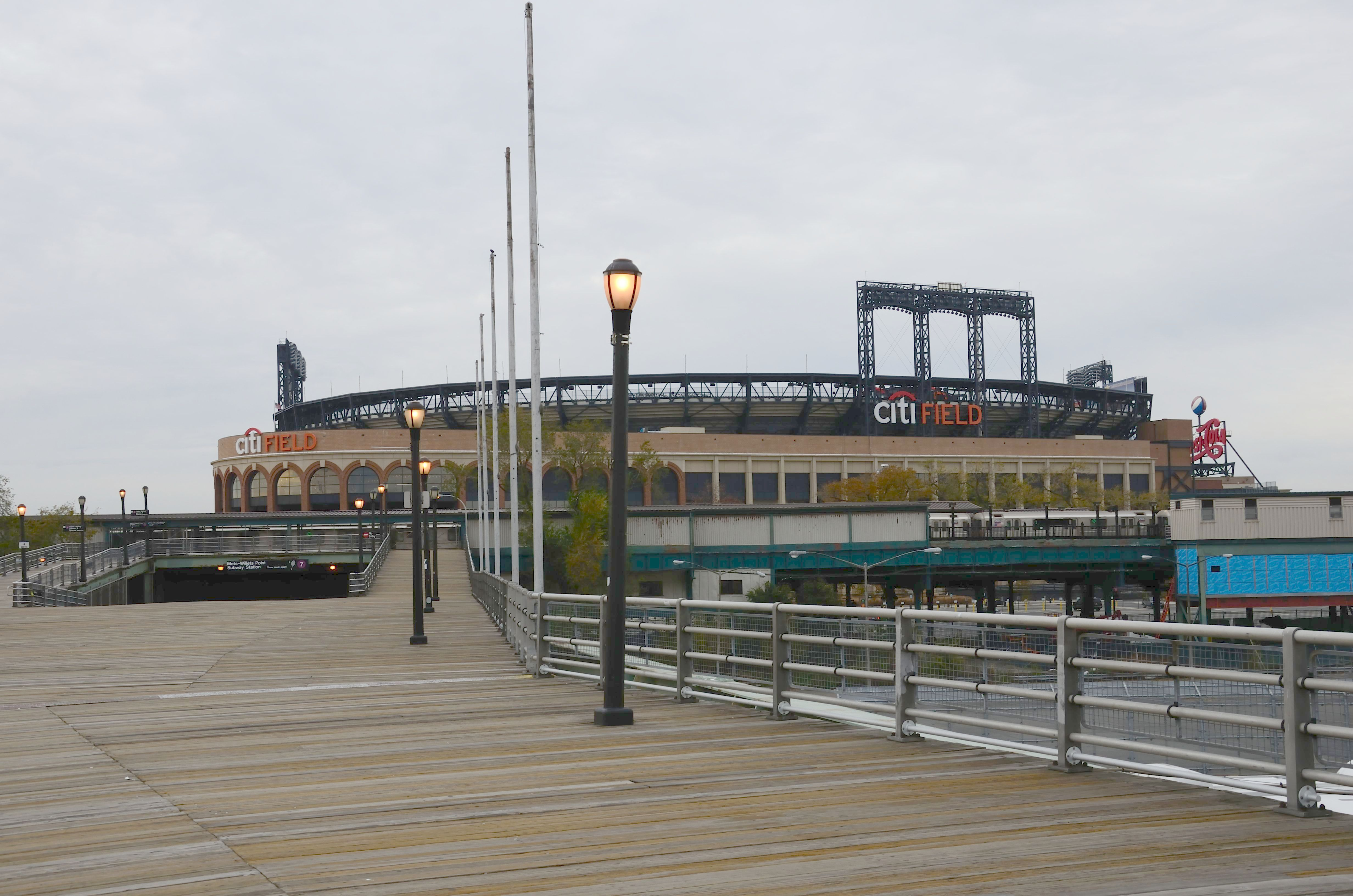 New York Mets Citi Field, Flushing, New York CLS_5306.JPG